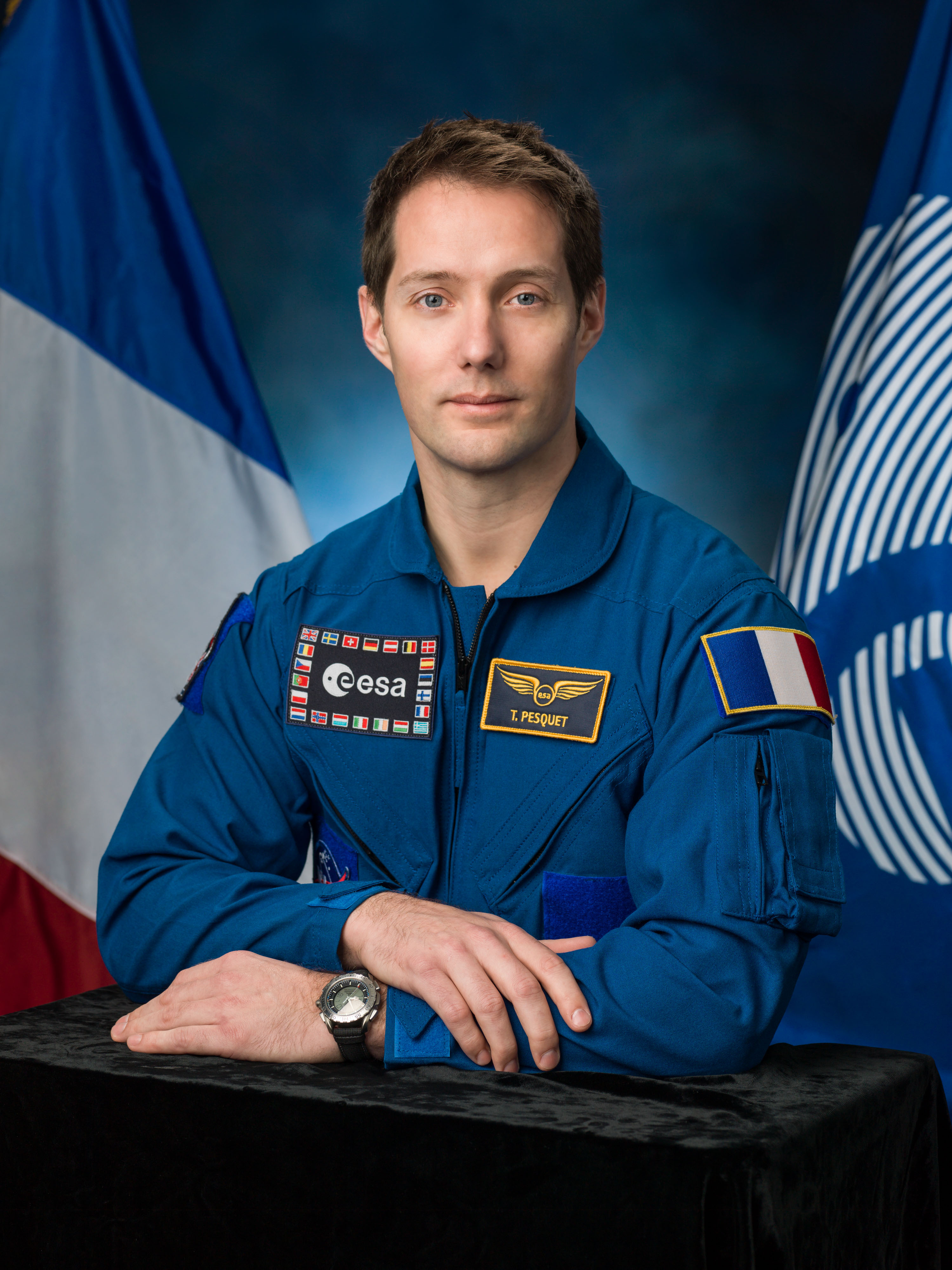 Official portrait of European Space Agency (ESA) astronaut & Expedition 50/51 crew member Thomas Pesquet in blue flight suit.